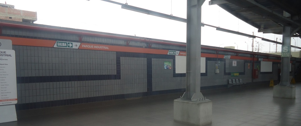 Estación Parque Industrial